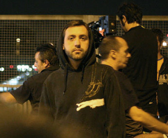 Lorenzo Fonda on the set of a Nike commercial